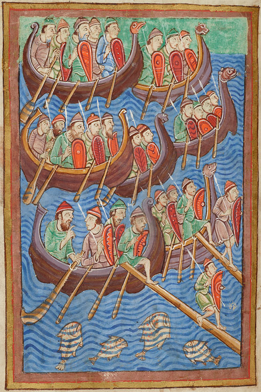 Folio 9v of Miscellany on the Life of St. Edmund